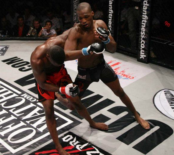 Michael Page UCMMA 29